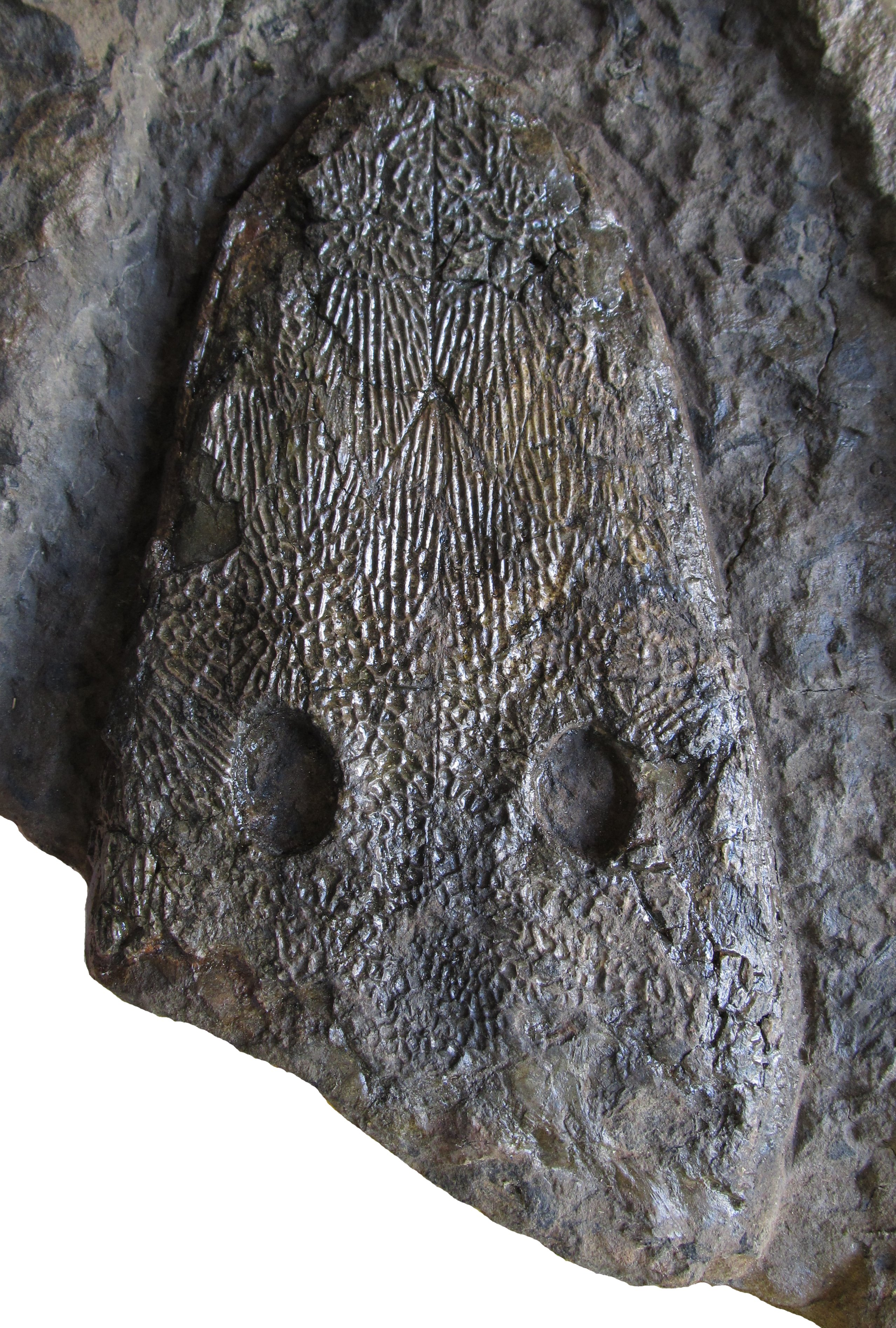 The holotype specimen of Cyclotosaurus buechneri Witzmann, Sachs & Nyhuis, 2016 from the Upper Triassic of Bielefeld, Germany. Original specimen in the Naturkundemuseum Bielefeld.